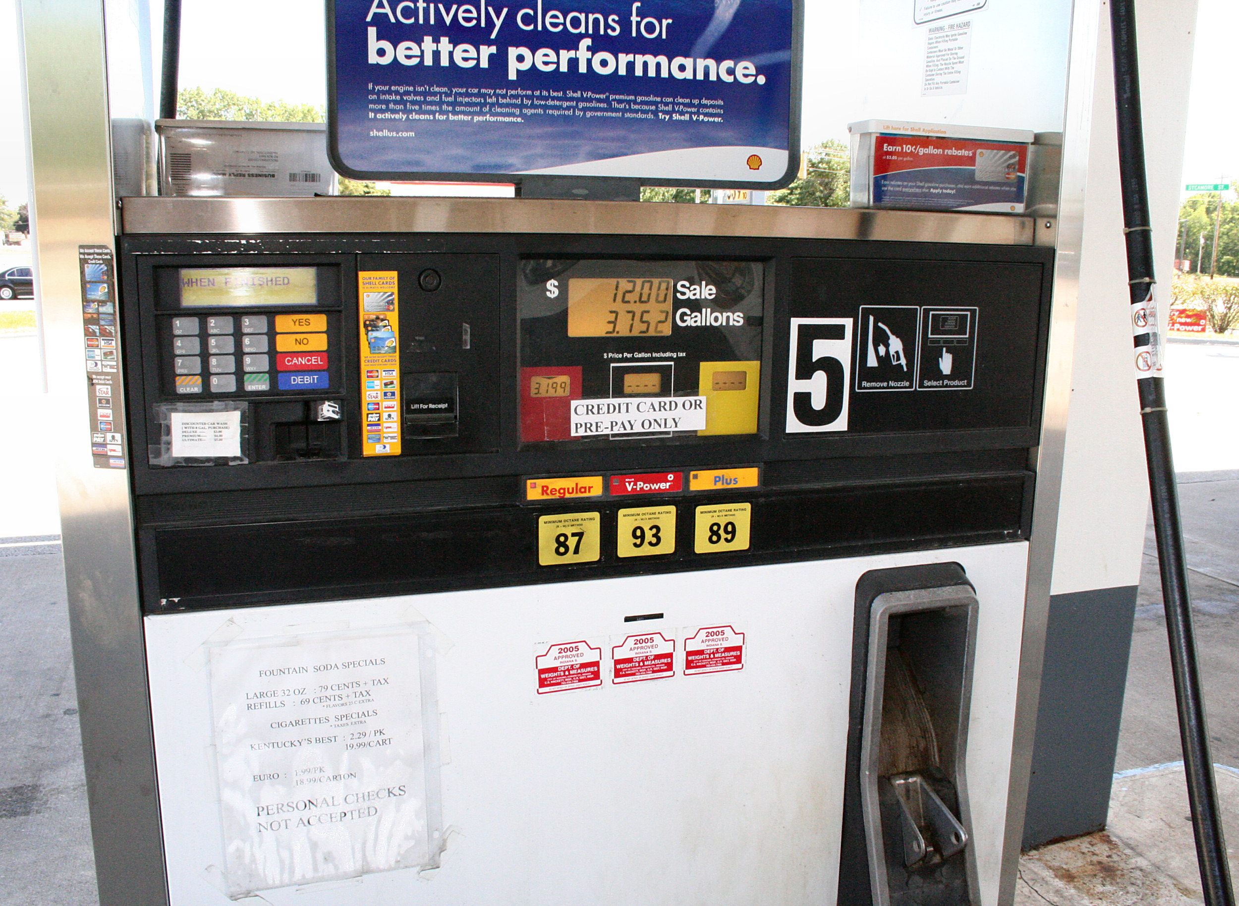 Pay-at-the-pump gasoline pump at a filling station in Indiana (during the price spike in the wake of Hurricane Katrina). Photo shot by Derek Jensen (Tysto), 2005-September-02